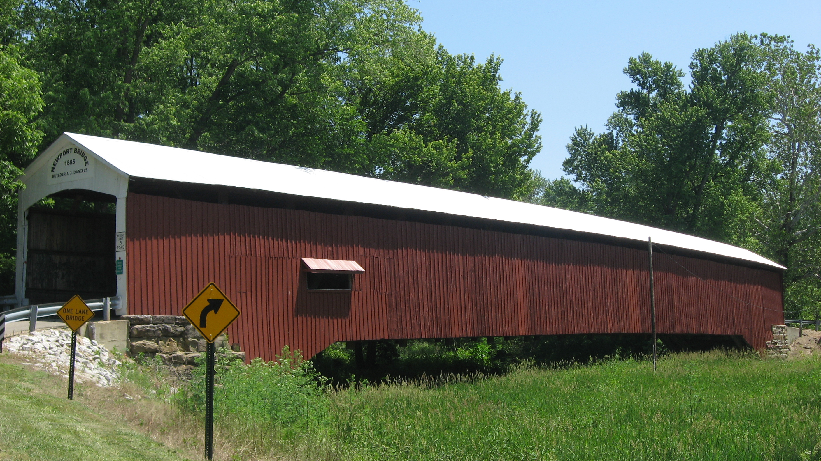 Northern portal and western side of the Newport Covered Bridge, which carries County Road 50N over the Little Vermilion River northwest of Newport in Vermillion Township, Vermillion County, Indiana, United States. Built in 1885, it is listed on the National Register of Historic Places.